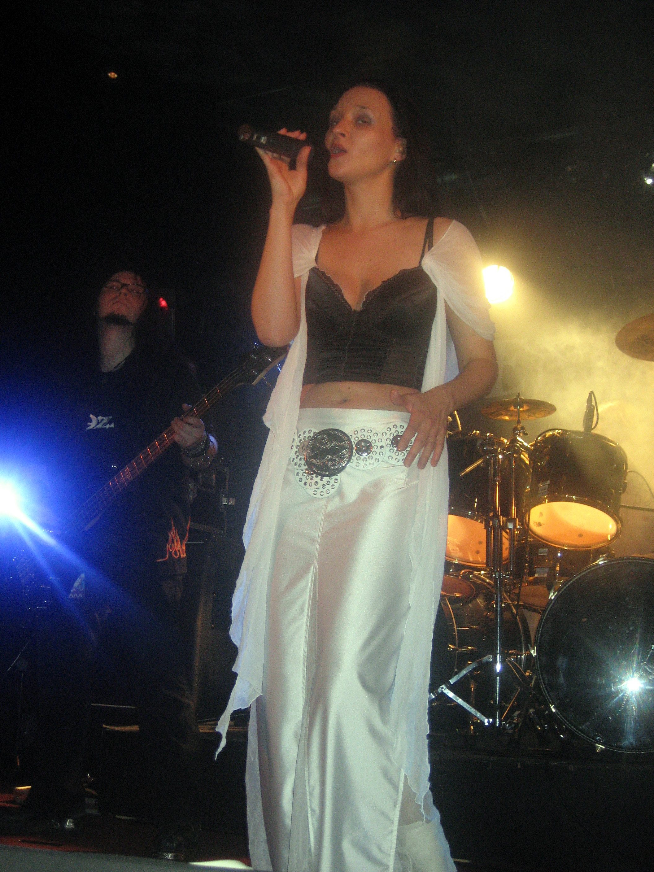 An image of Sabine Edelsbacher and Frank Bindig of the Austrian band Edenbridge in concert in Parksont, Poole the 16th of November 2006